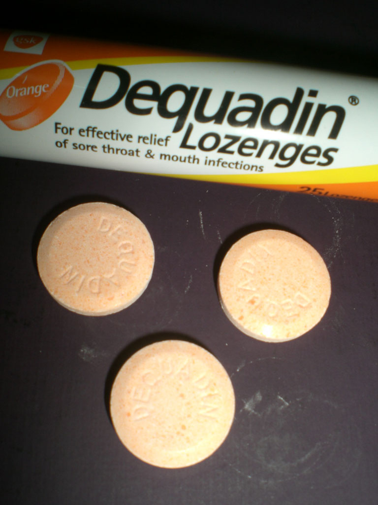 得果定喉片